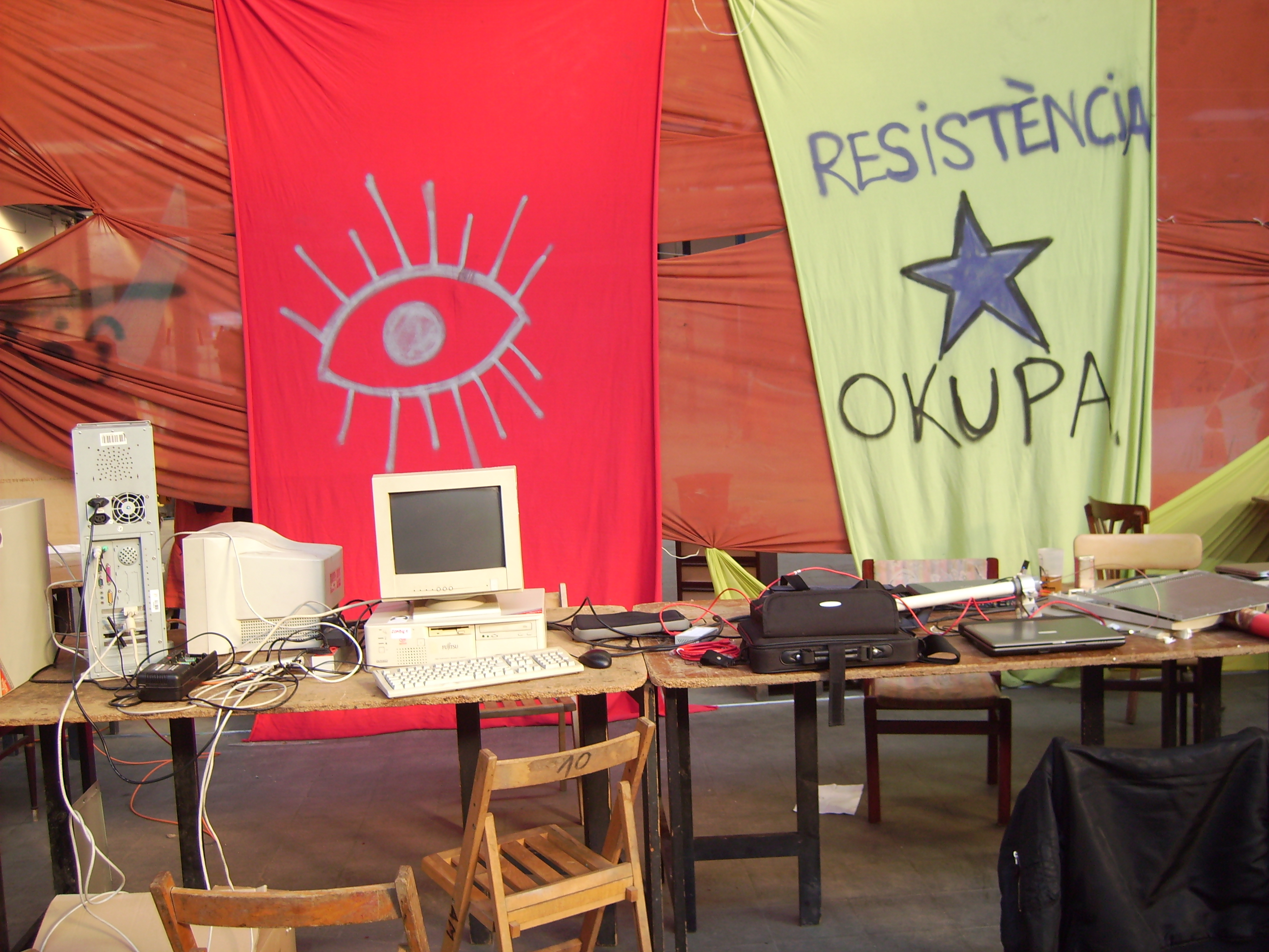 Computers in a hackmeeting in Mataró, Catalonia